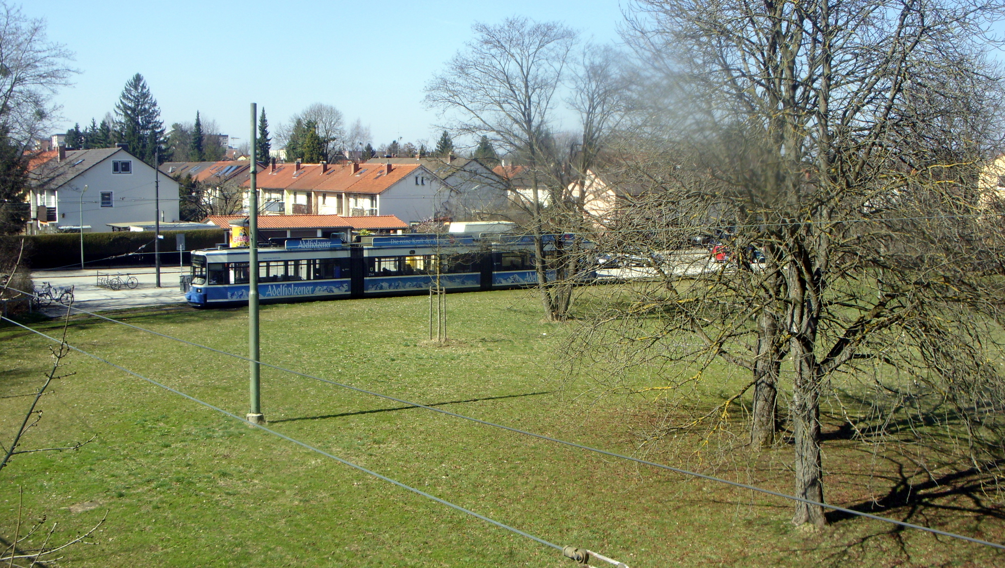 Gondrellplatz in Munich (Kleinhadern)